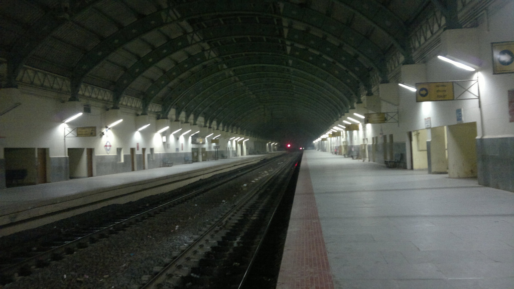 Perungudi train station